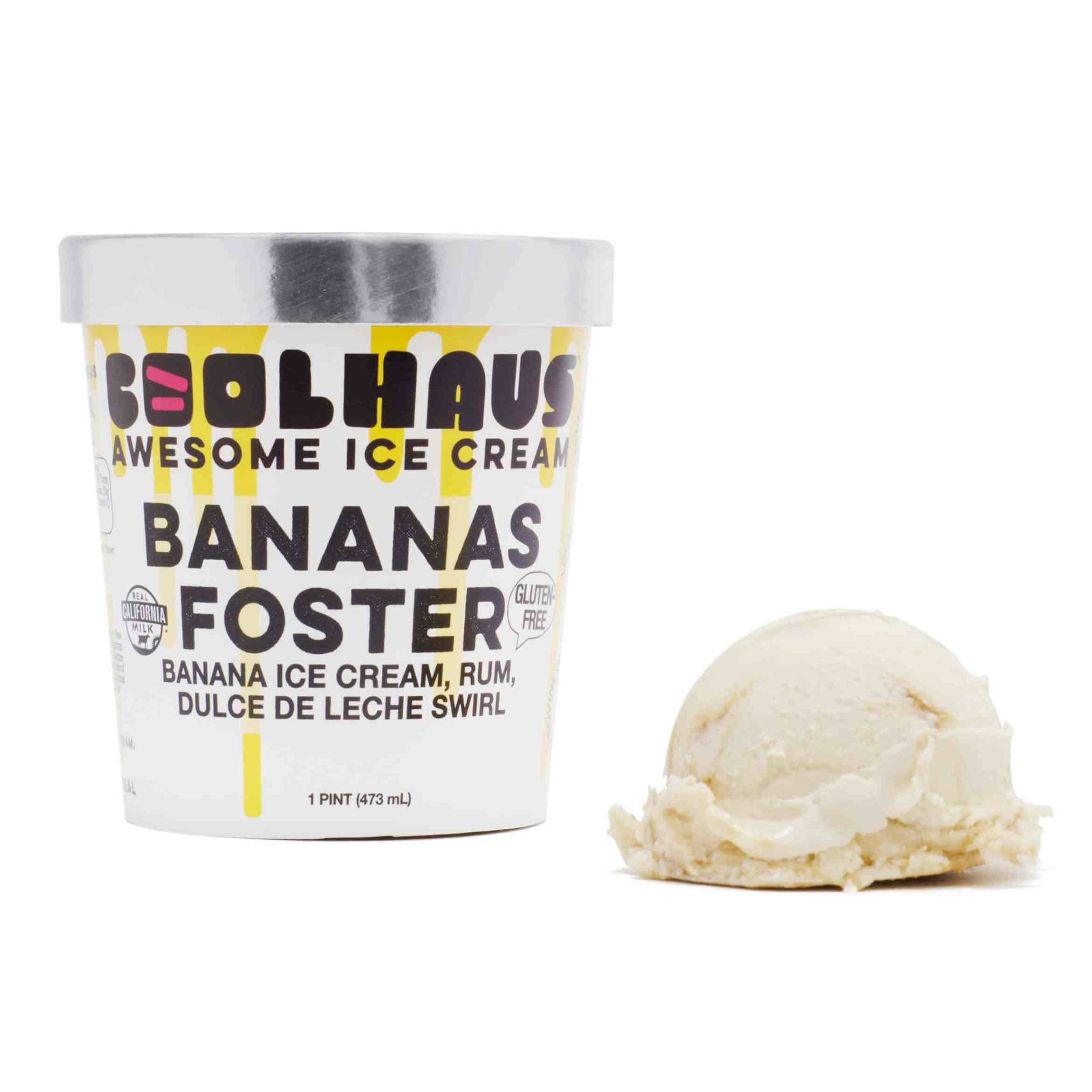 2017 Coolhaus Bananas Foster ice cream pint and scoop